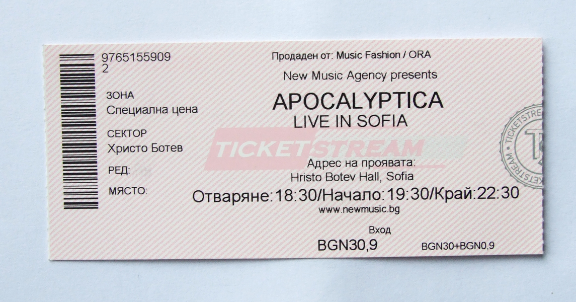 Apocalyptica - concert ticket, June 2006, Sofia, Bulgaria